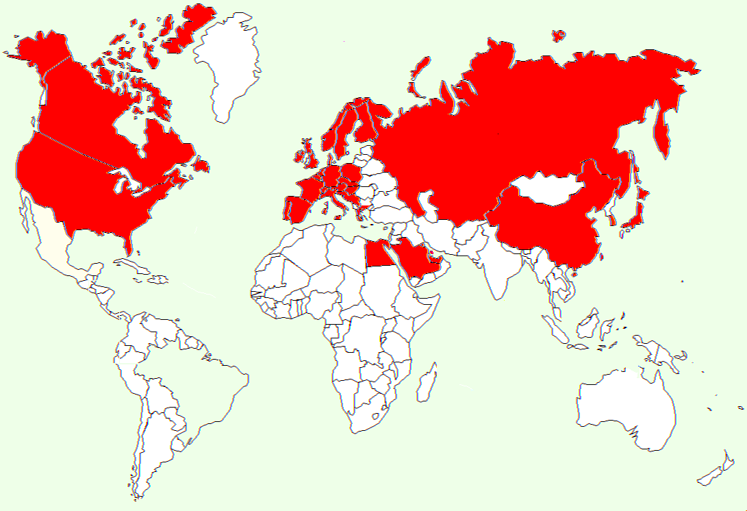 World H&M